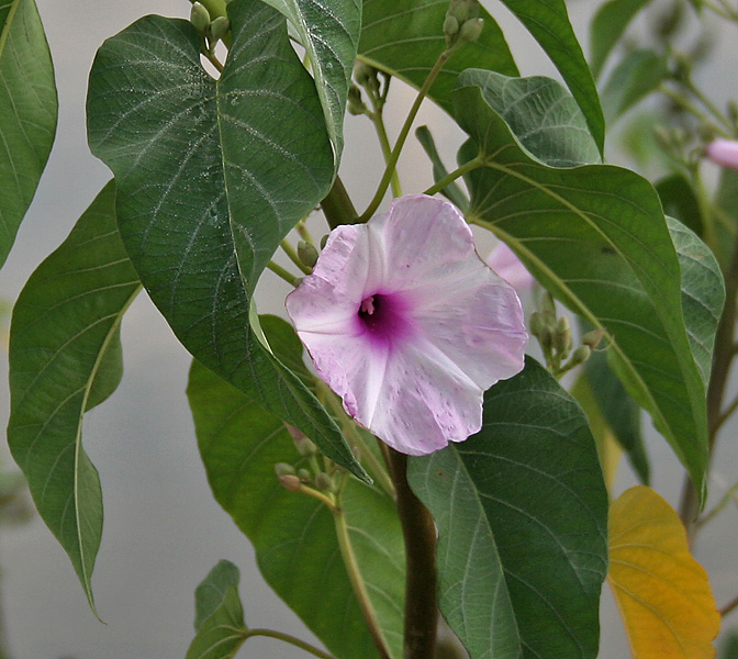 Pink Morning Glory, Bush Morning Glory, Morning Glory Tree, Badoh Negro, Borrachero, Matacabra Ipomoea carnea in Narsapur, Andhra Pradesh, India.